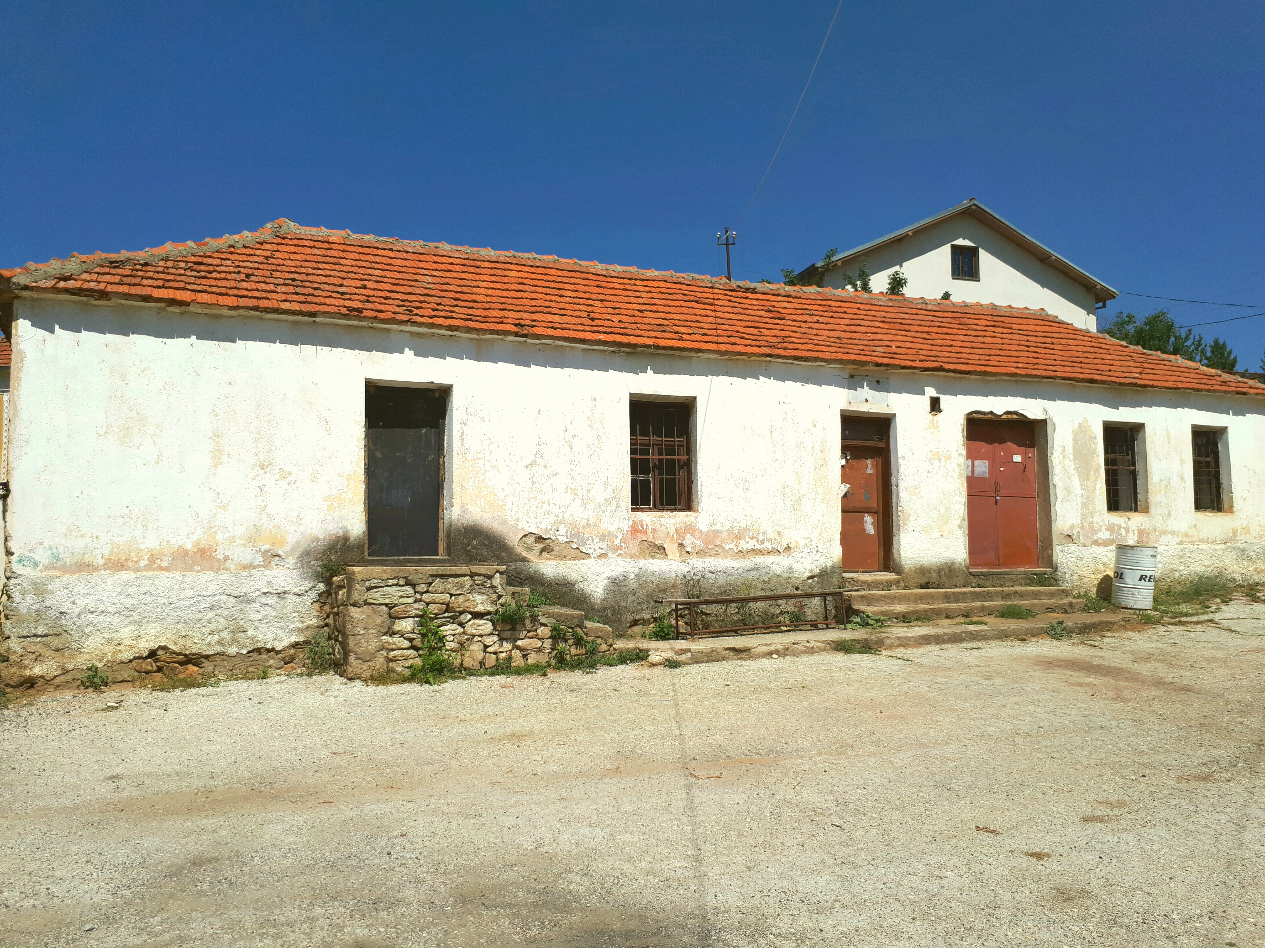 Part of the Veloexpedition in 2017